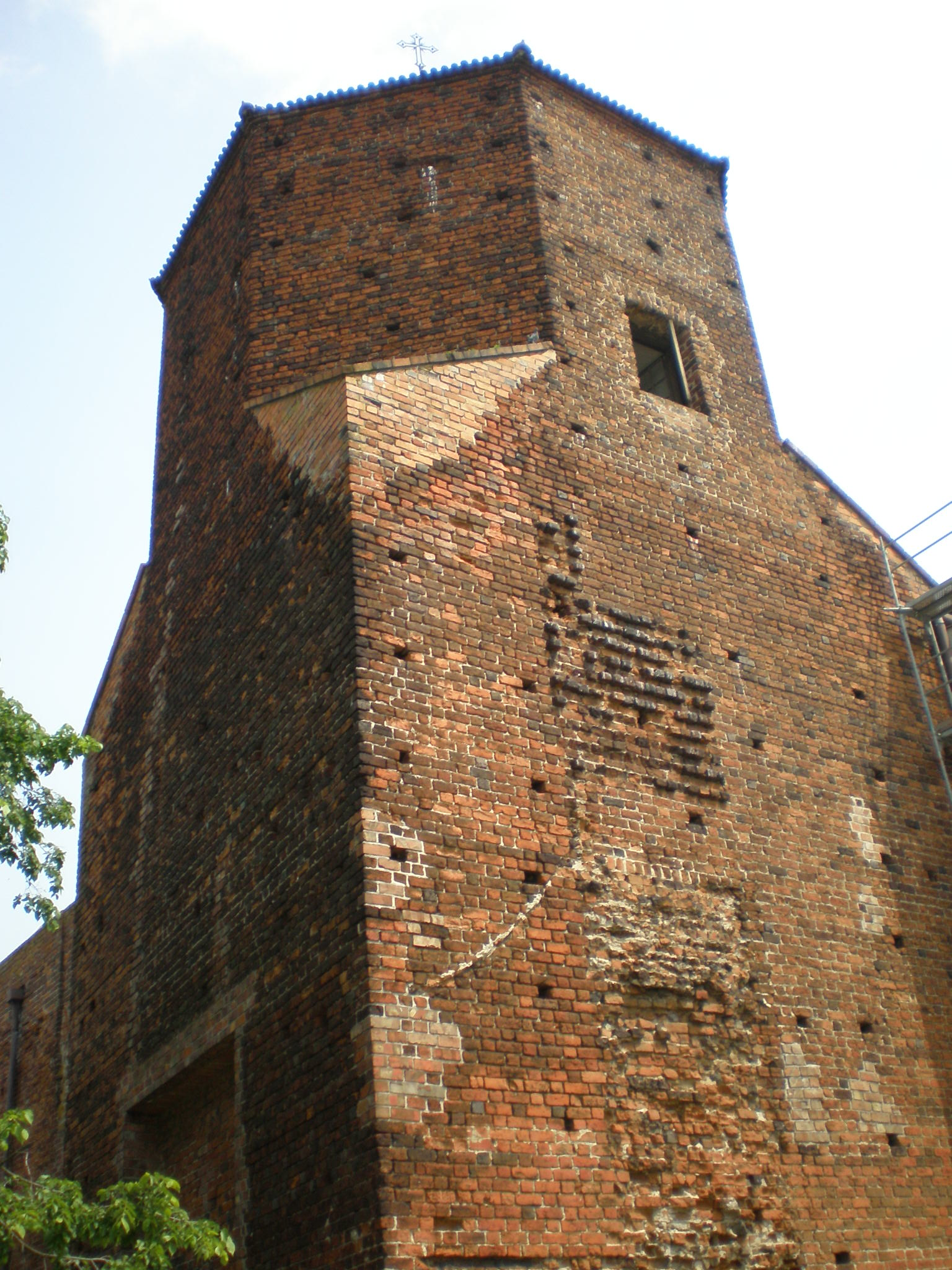 High Tower of the Płock Castle